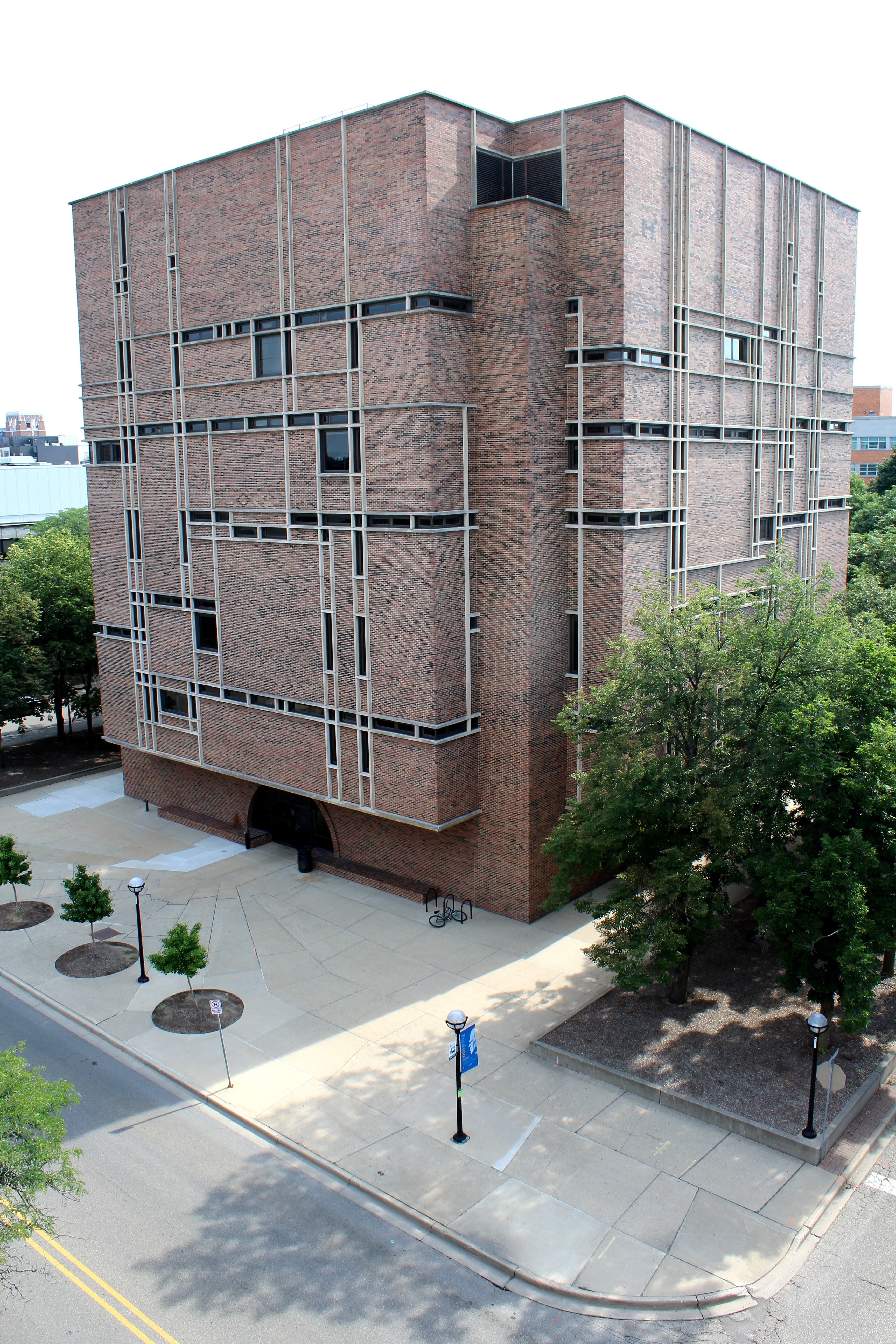 Fleming Administration Building, 503 Thompson Street, Ann Arbor, Michigan.